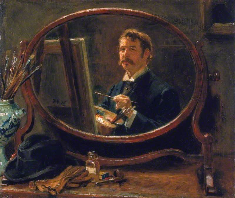 Self portrait oil on canvas 43.2 x 50.8 cm signed c.l.: HR 95